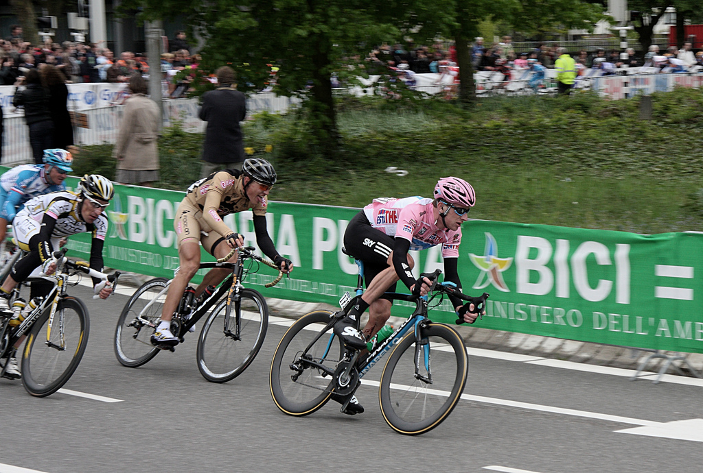 Blood, sweat and gears, Bradley Wiggins had to deal with it all to be the first man in pink this year during the Giro. It is a doubtful honour, as you don't win this race with it...